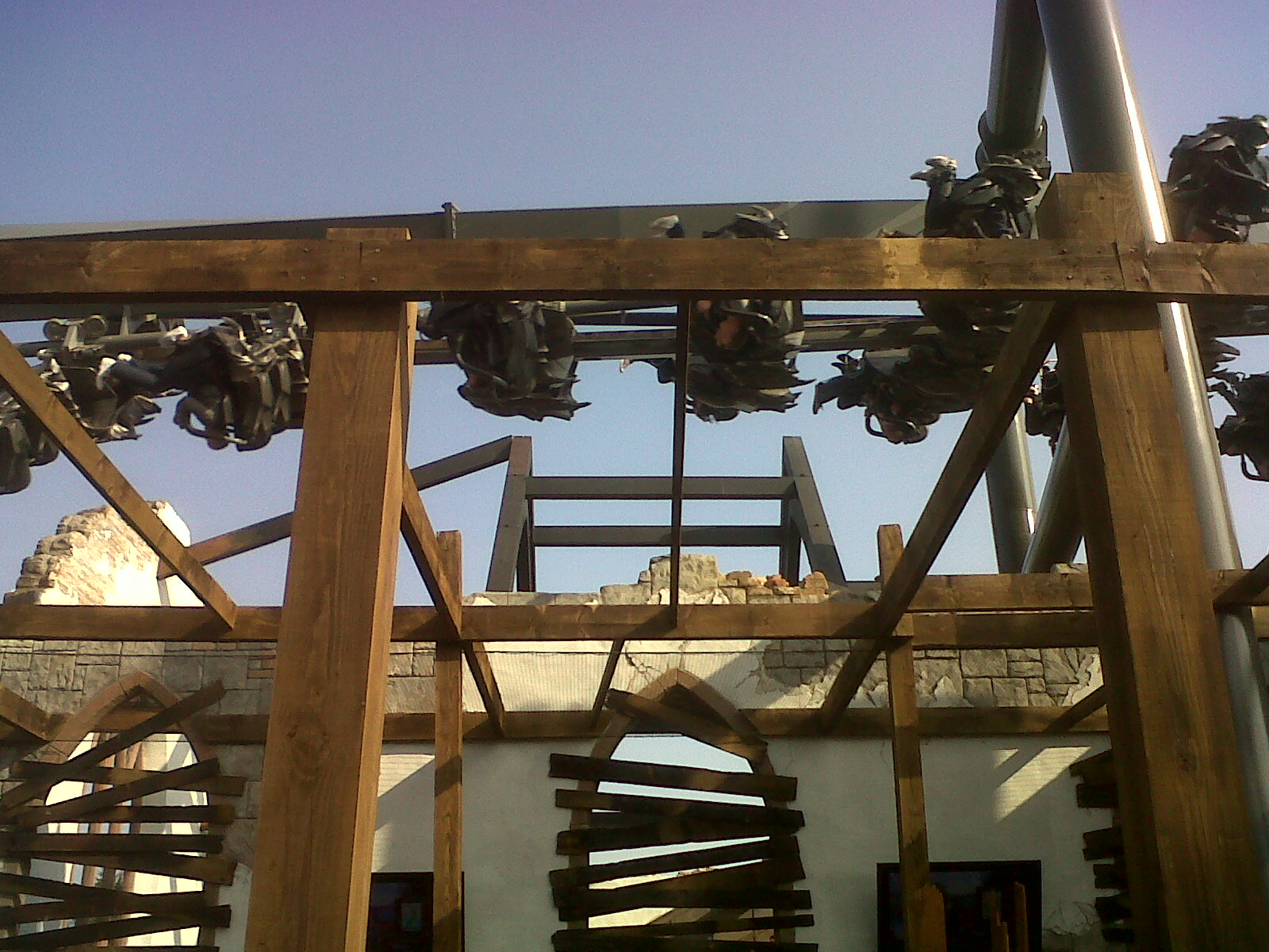 the swarm , flying over station (inline twist)